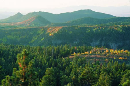 Bandelier Wilderness Most of Bandelier’s dramatic landscape consists of a large volcanic plateau cut into long mesas by many deep, sheer-walled canyons. Here, forested mesa tops are framed by the San Miguel Mountains along the park’s west boundary. More than two thirds of Bandelier’s 50 square miles is a designated wilderness. National Park Service photo.